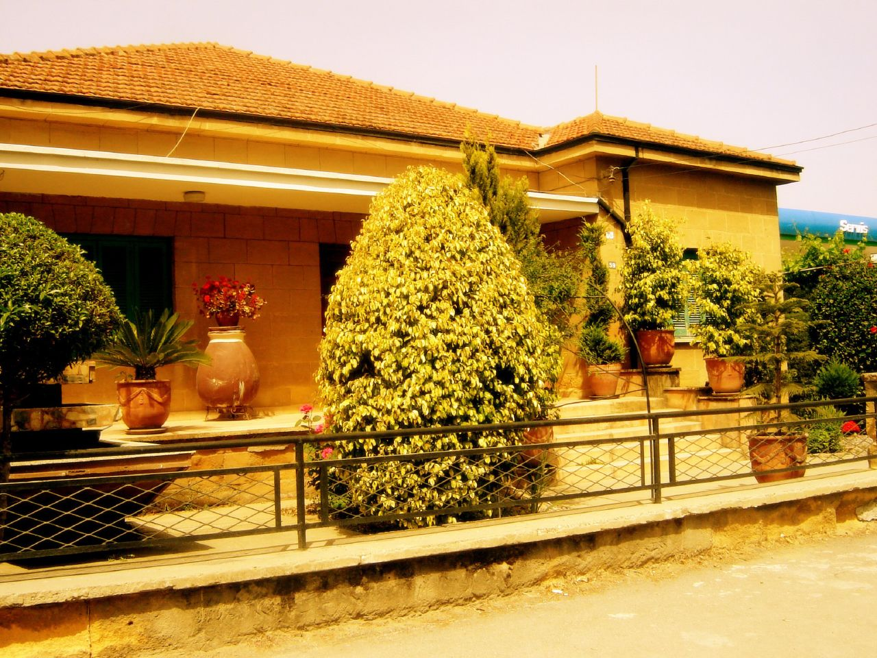 An example of a typical house from the 1950s in the Köşklüçiftlik region of North Nicosia, when the city just started to expand outside the walls.